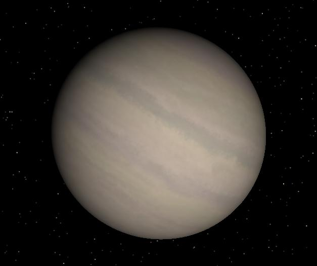 Artist's view of Iota Horologii b (min mass ~2 MJ)